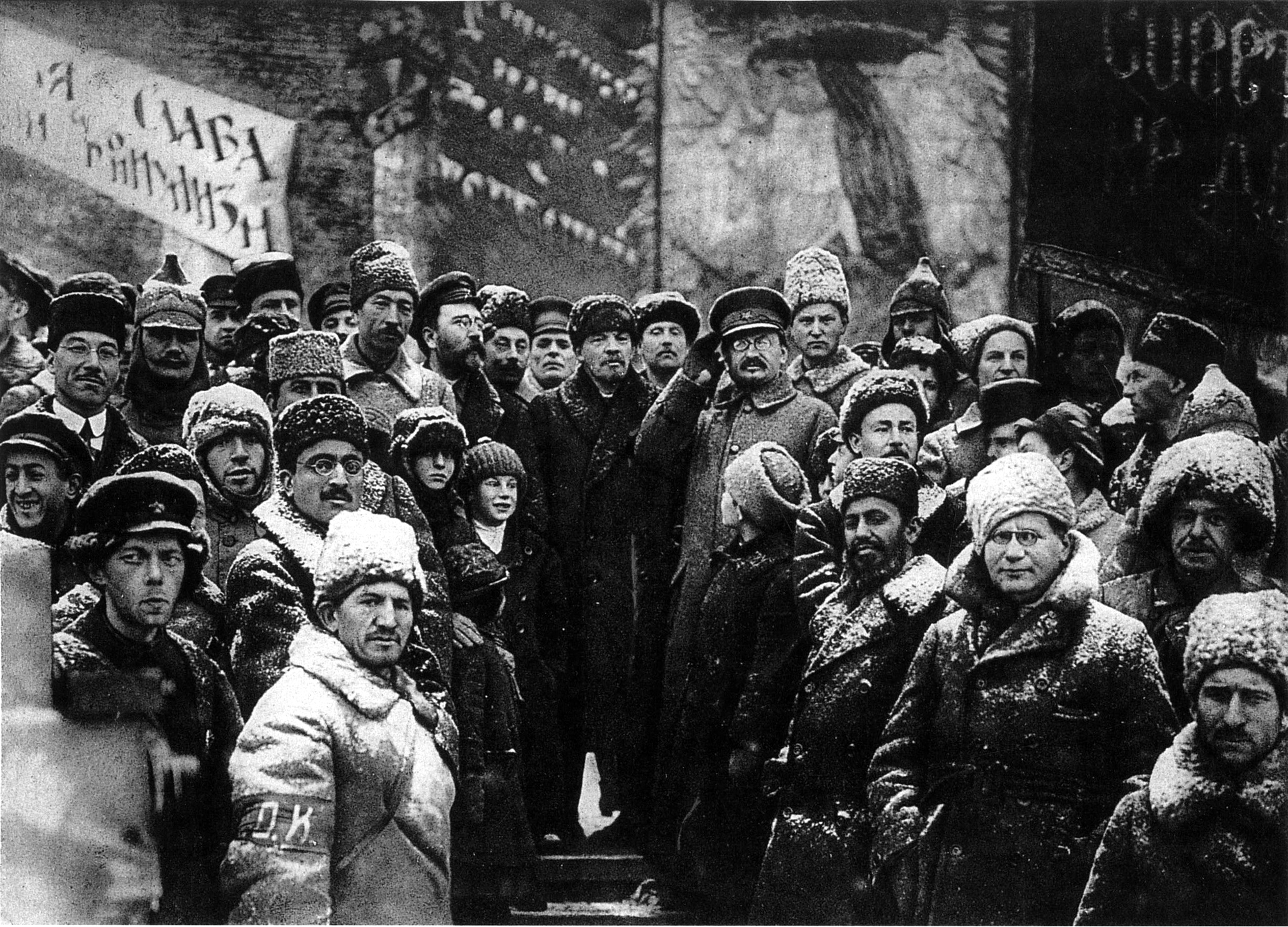 Soviet leaders Red Square, Moscow, USSR celebrating the second anniversary of the October Revolution.